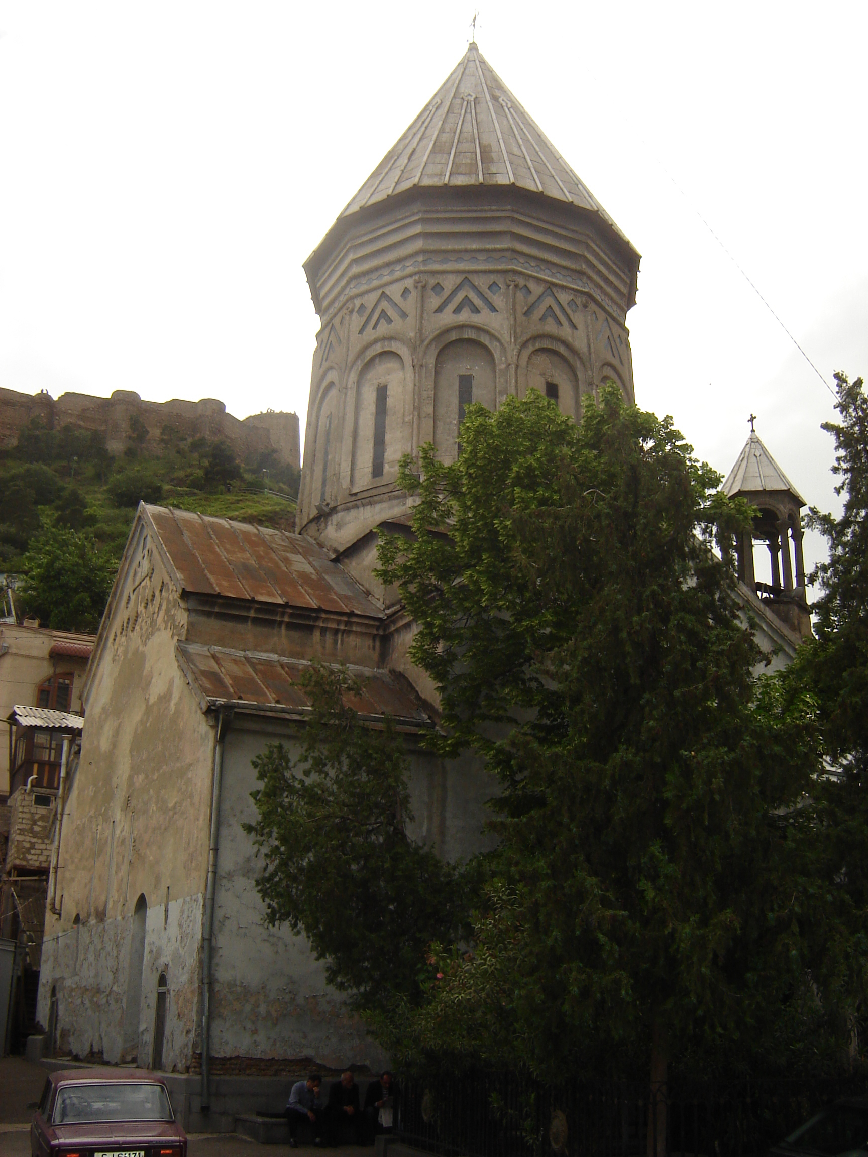 St. Kevork Armenian Apostolic Church, Tbilisi, Georgia(country). Front view.